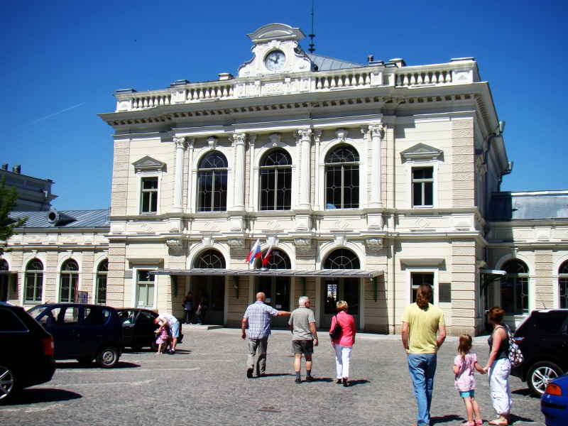 Przemyśl